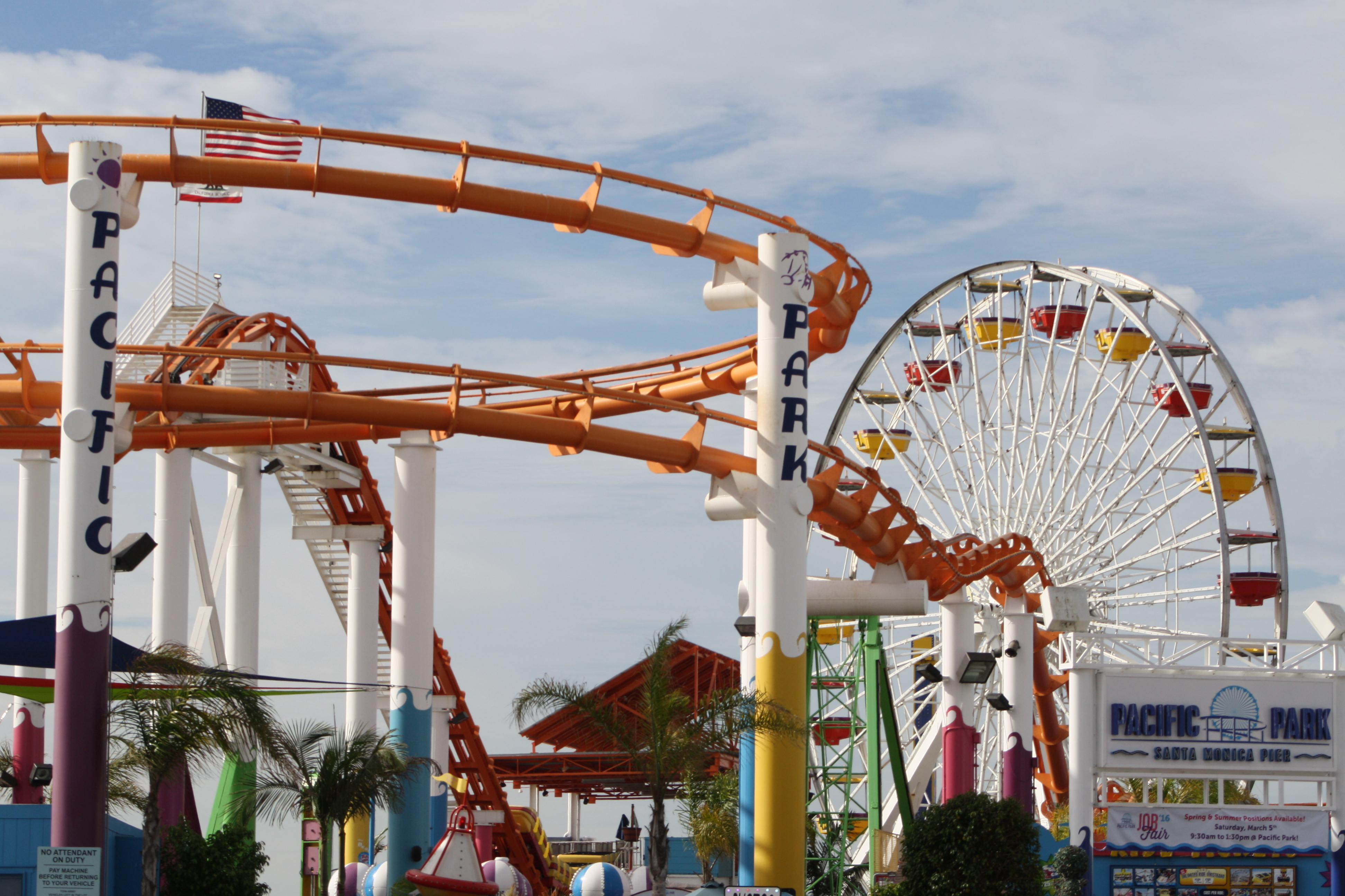 The modern day looks of the Pacific Park entrance.